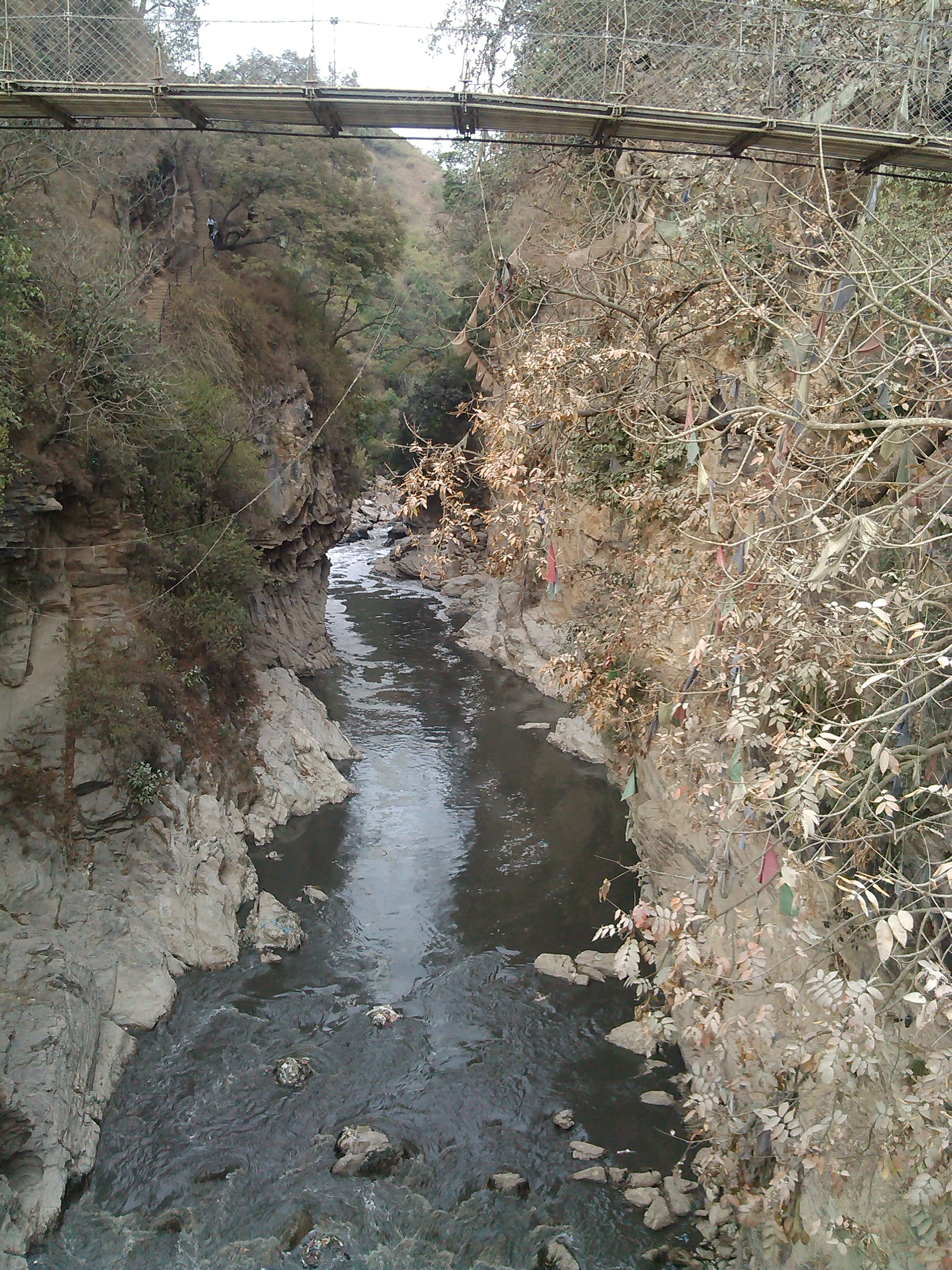 Bagmati river at Chobhar.